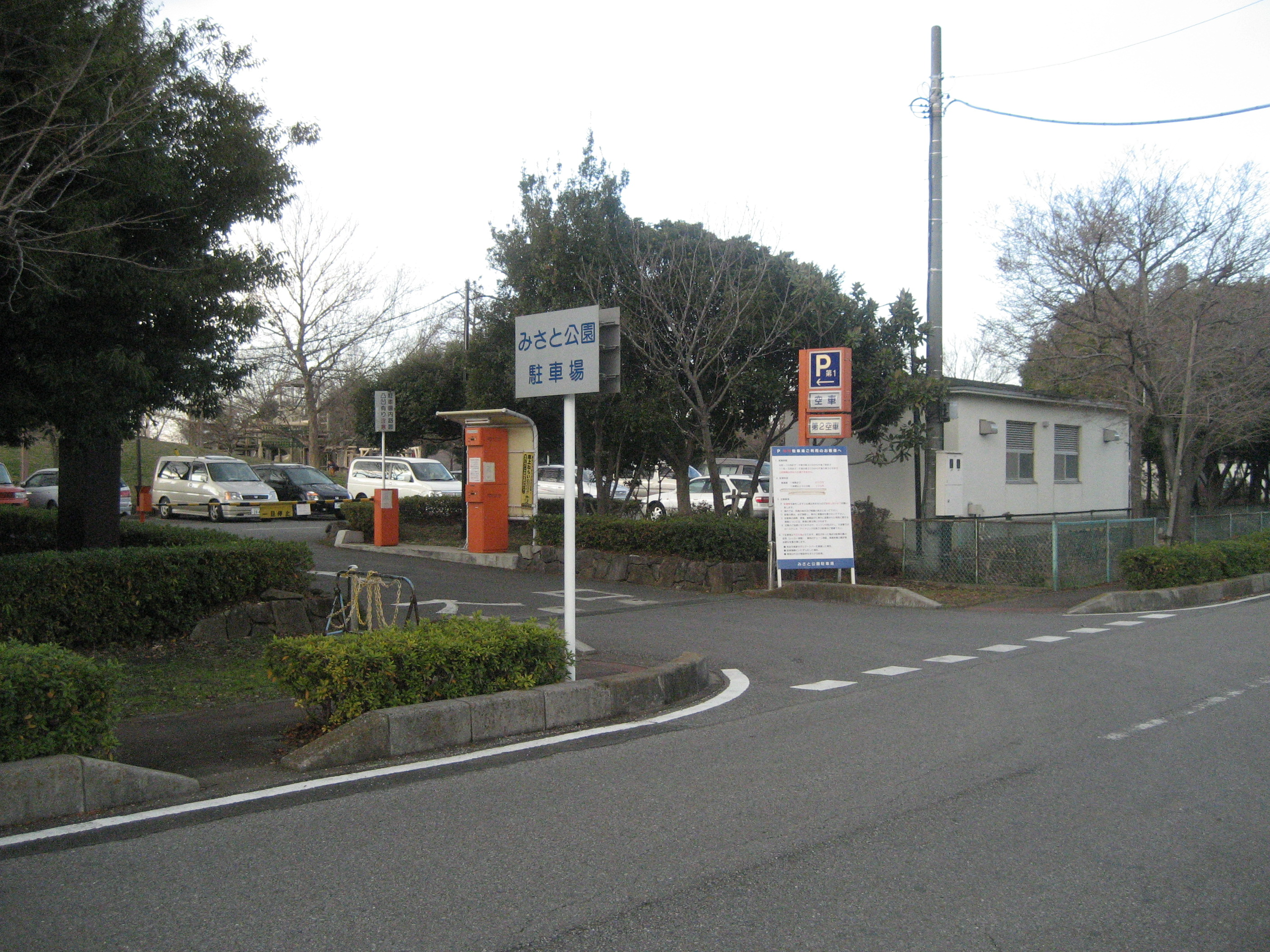 Car park of the Misato Park in Misato City, Saitama Prefecture, Japan